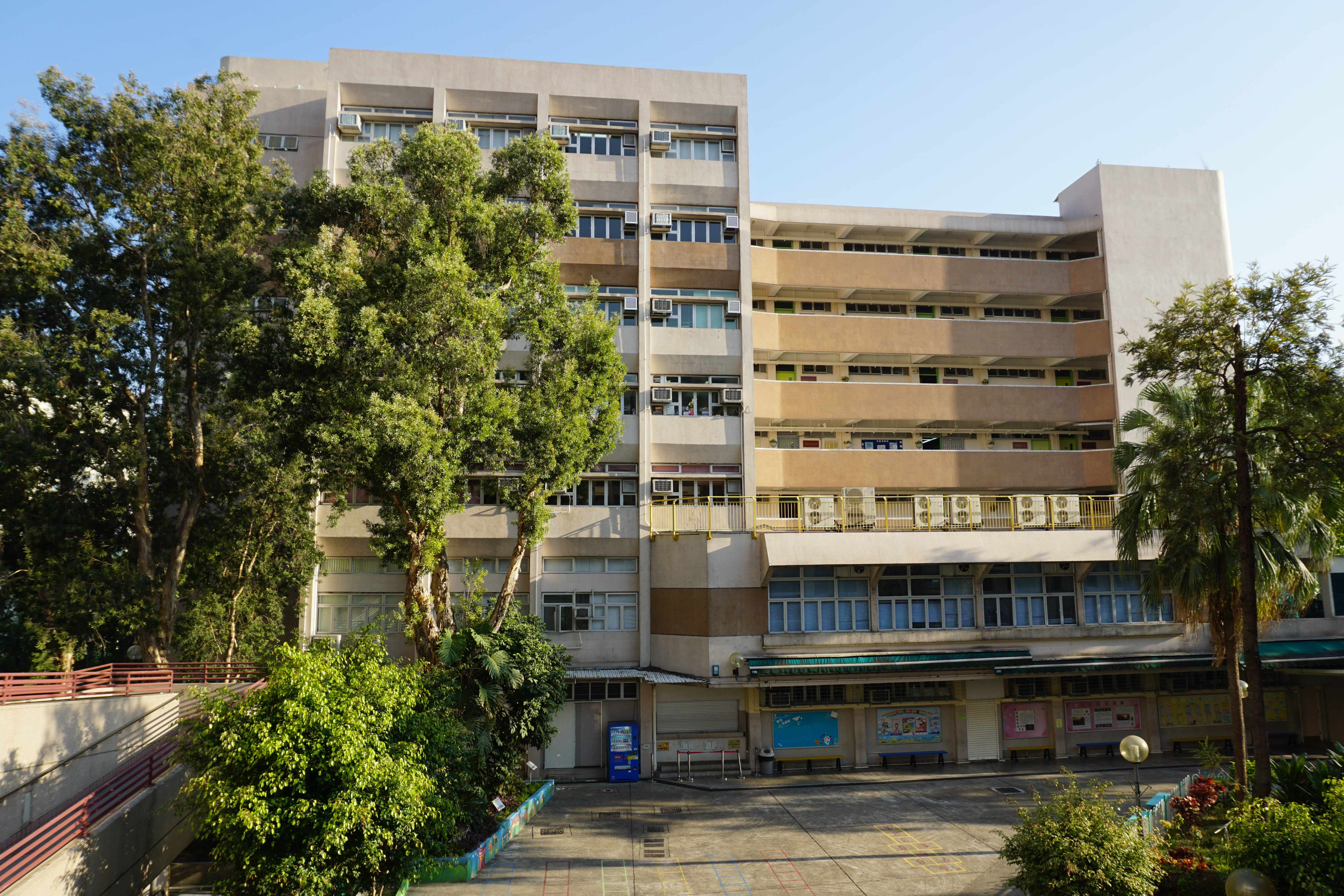 Kwong Ming School in Yuen Long, Hong Kong.